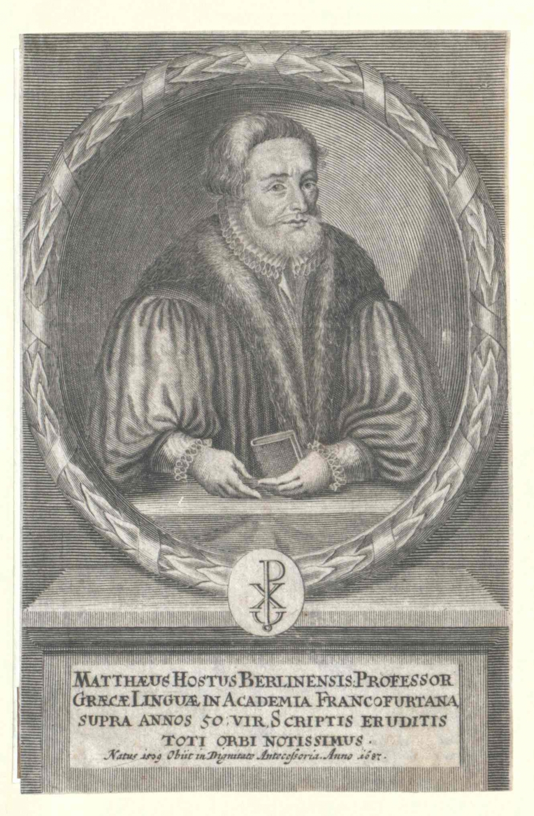 Matthaeus Host (1509-1587)